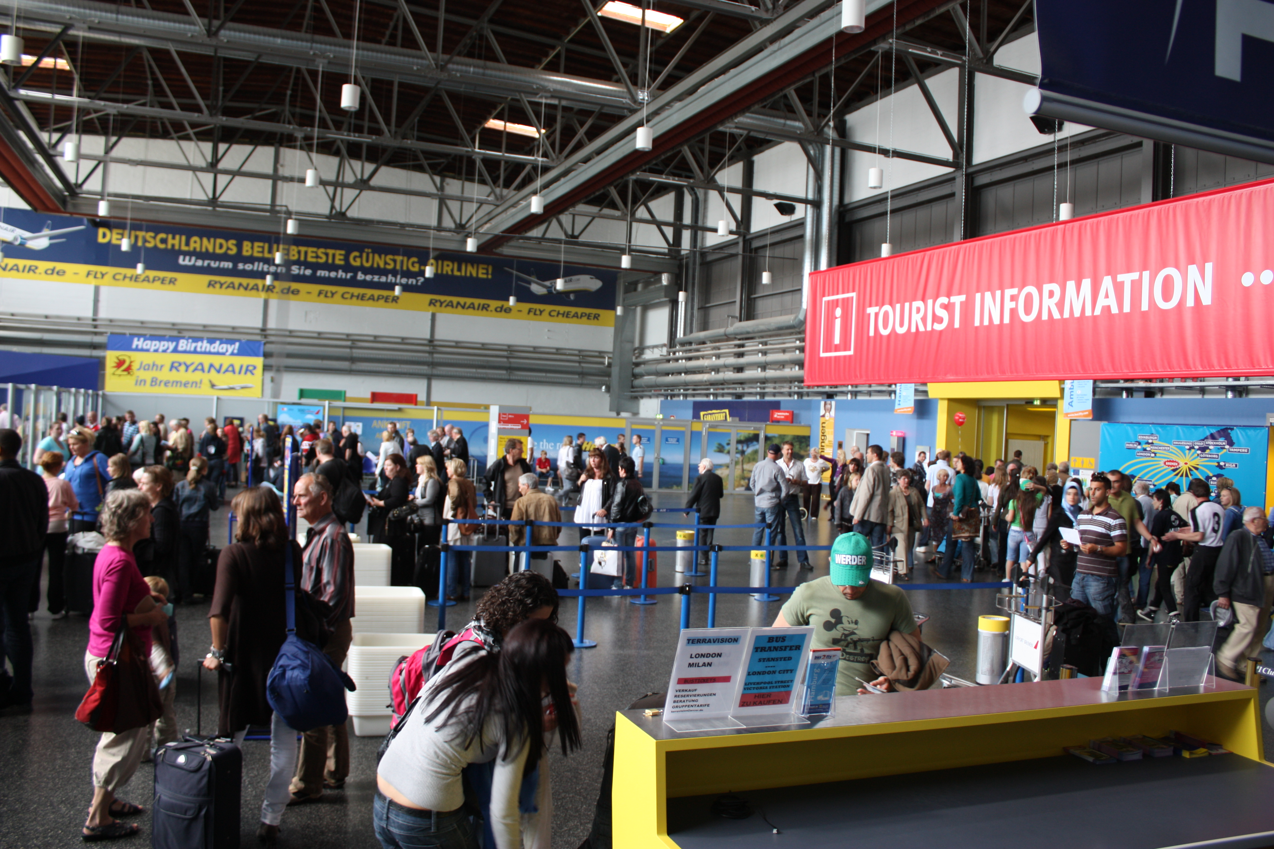 Ryanair Abflughalle at Bremen Airport